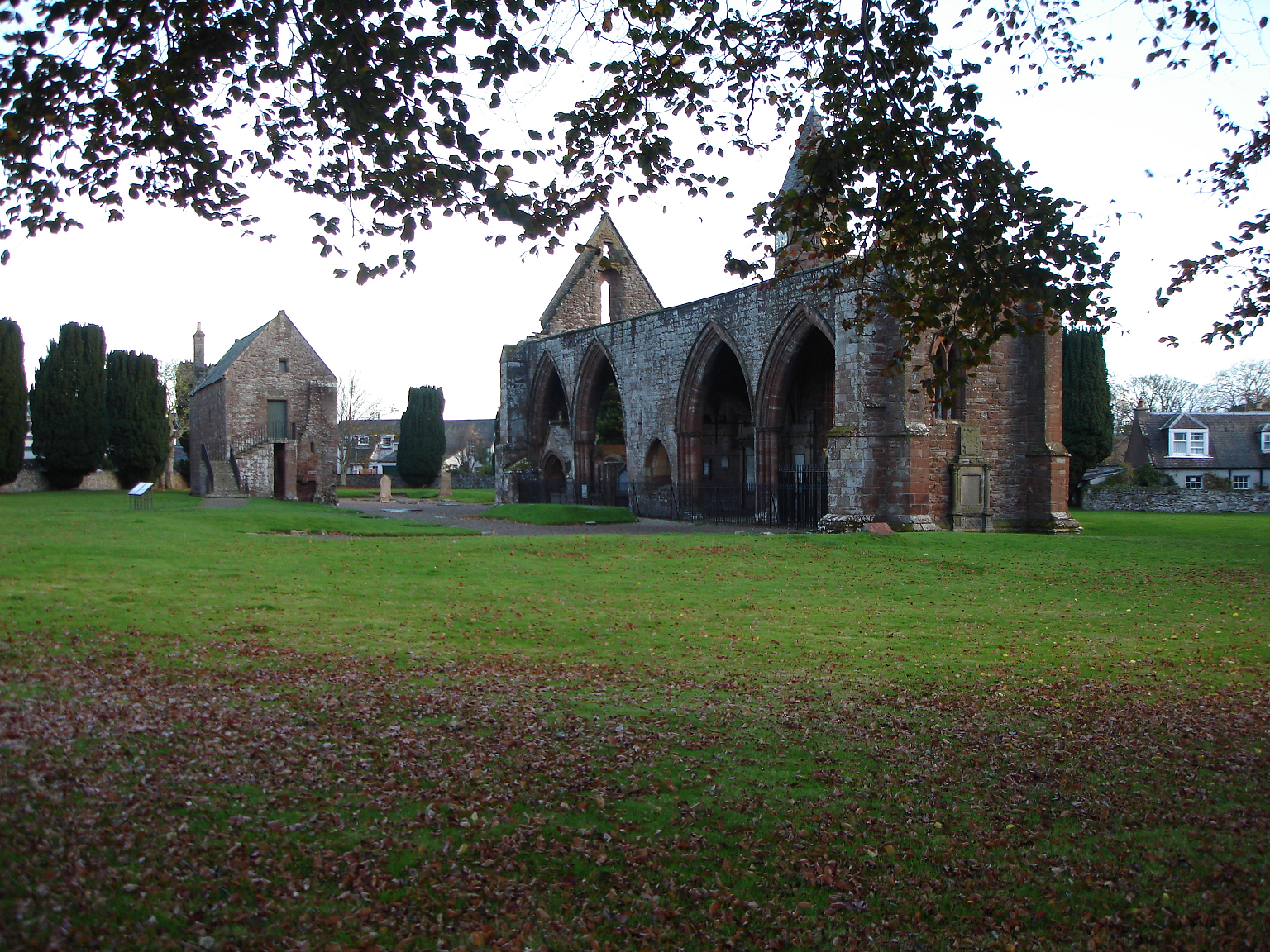 Fortrose Cathedral. Uploader's own picture.